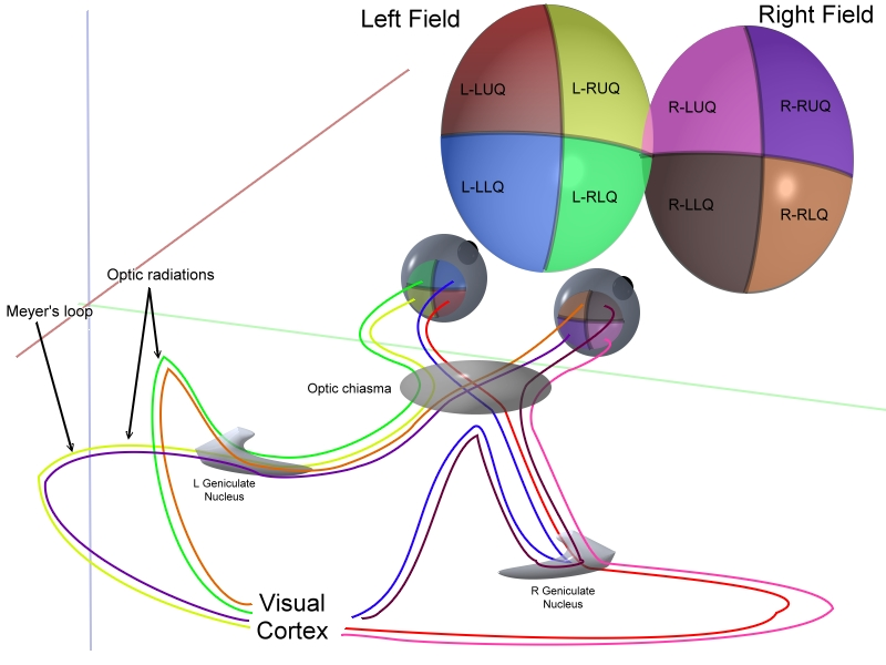 This image schematically represents optic pathways from each of the 4 quadrants of view for both eyes simultaneously. It is a pseudo-3D image based on several 2D text book descriptions. I have combined these to represent both sagittal and coronal planes in one image. The graphical work is entirely my own work.